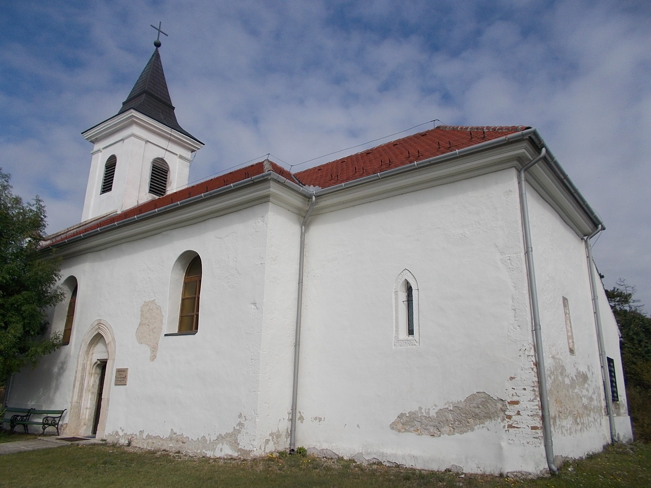 Saint Stephen of Hungary church . - Inota quarter, Várpalota, Veszprém County, Hungary.